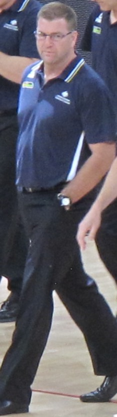 Category:Uploaded This file is made available under the Creative Commons CC0 1.0 Universal Public Domain Dedication. The person who associated a work with this deed has dedicated the work to the public domain by waiving all of his or her rights to the work worldwide under copyright law, including all related and neighboring rights, to the extent allowed by law. You can copy, modify, distribute and perform the work, even for commercial purposes, all without asking permission.